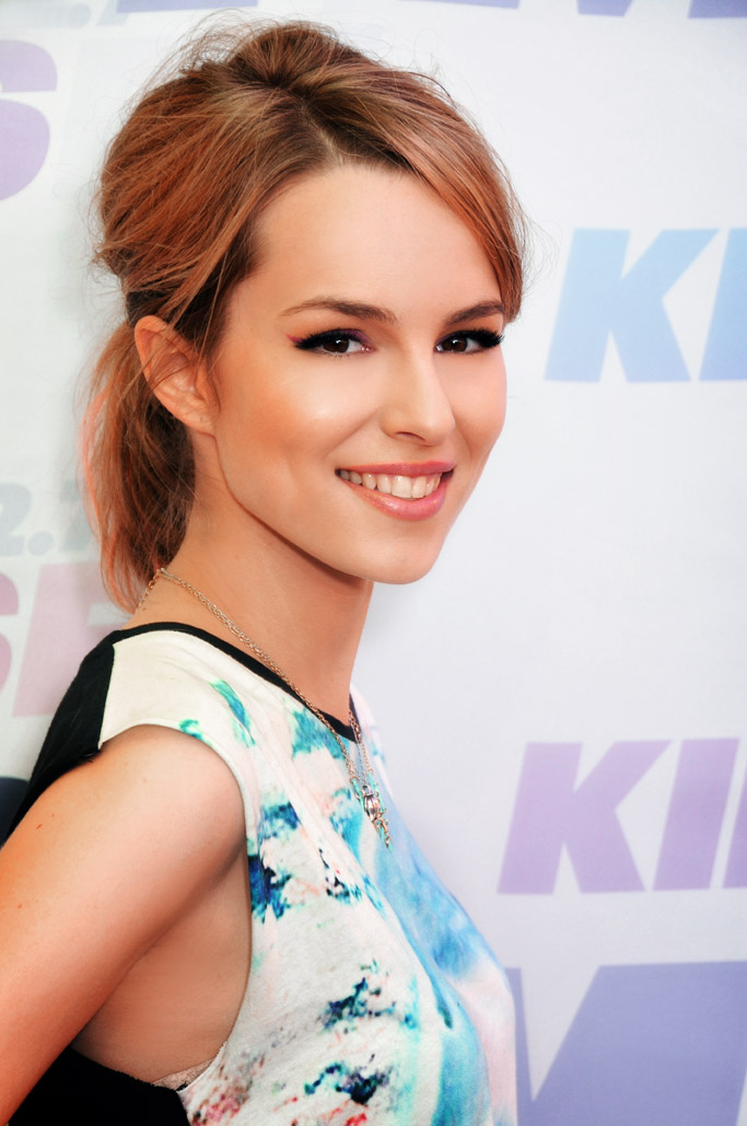 Bridgit Mendler, Carson, California on May 11, 2013 - Photo by Glenn Francis of